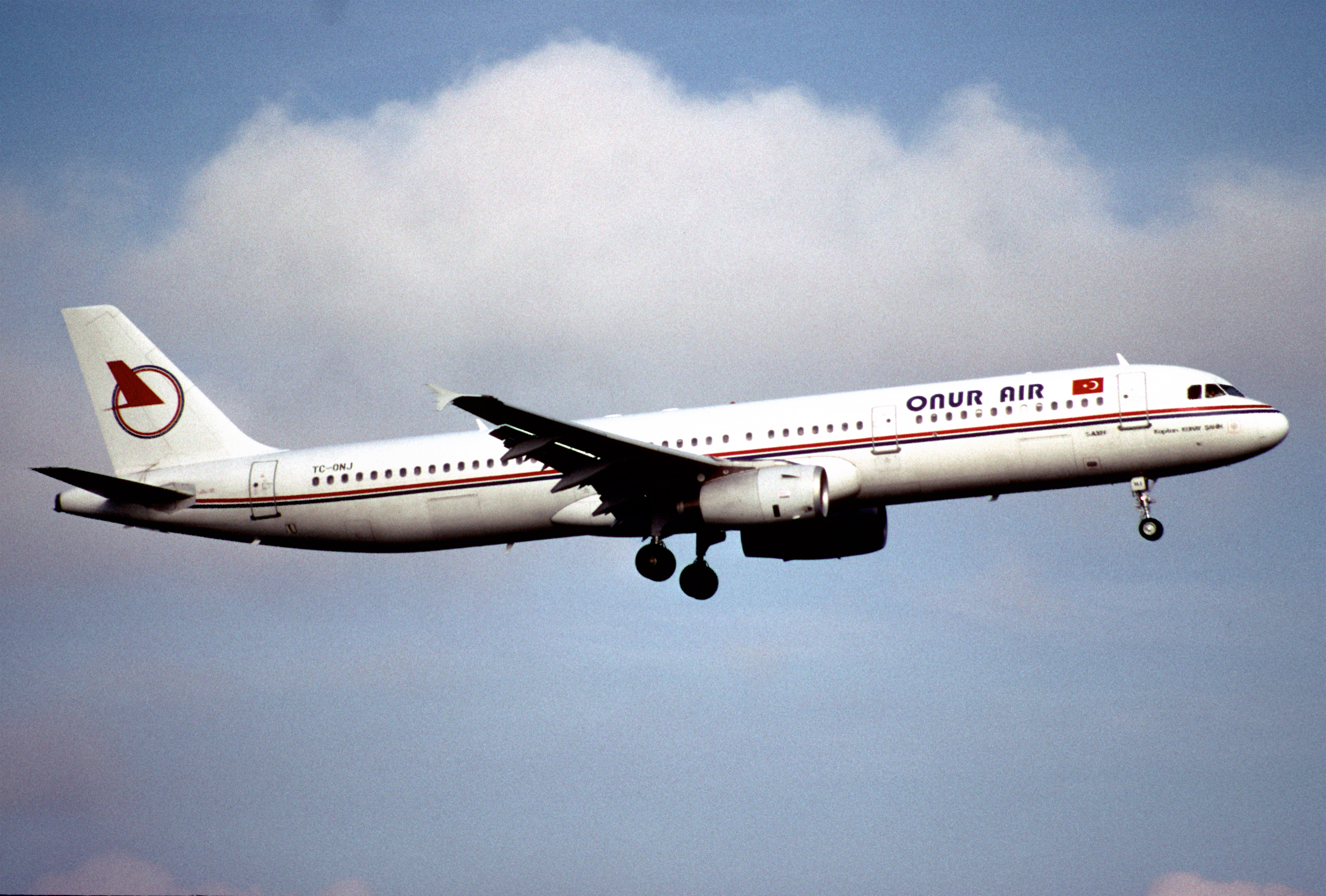 First flight: May 25, 1993...(c/n 385) 25/05/1993 Airbus Industrie F-WWIB Second Prototype 06/07/1996 Onur Air TC-ONJ 15/01/2006 Qeshm Air TC-ONJ 15/06/2006 Onur Air TC-ONJ